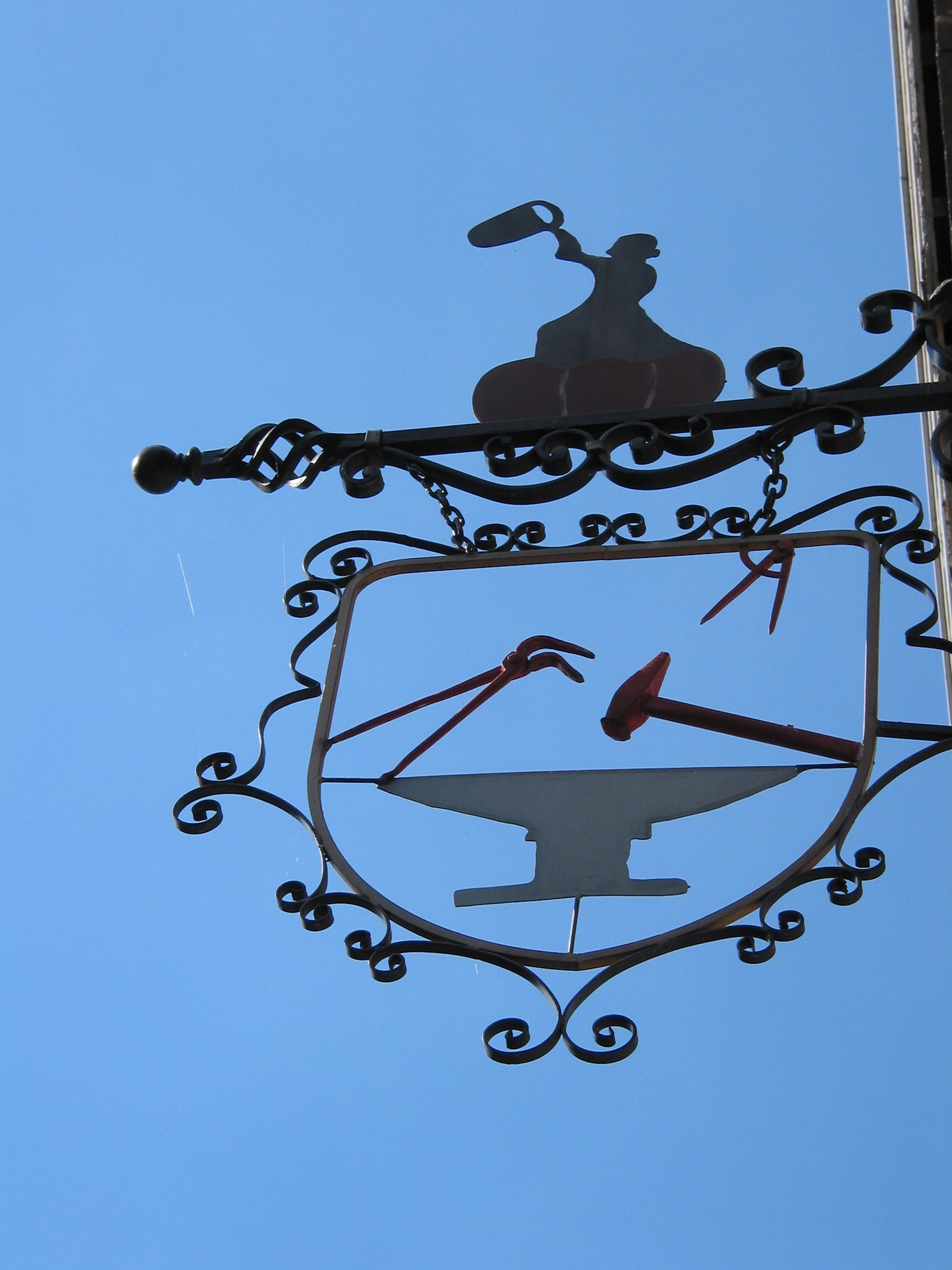 Enghien (Belgium), wrought iron sign shield of the blacksmiths guild.